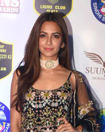 Kriti Kharbanda at the 26th SOL Lions Gold Awards 2020